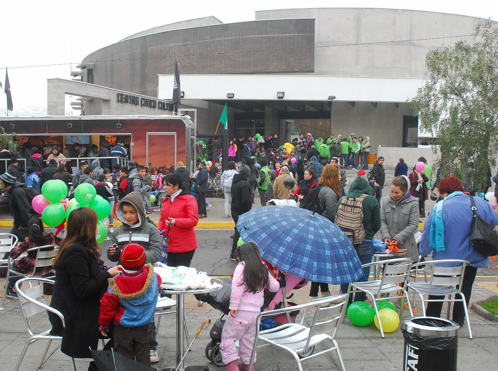 Centro Cívico Cultural El Bosque